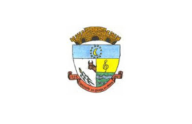 Flags of the city of Conceição da Barra de Minas, Minas Gerais, Brazil.